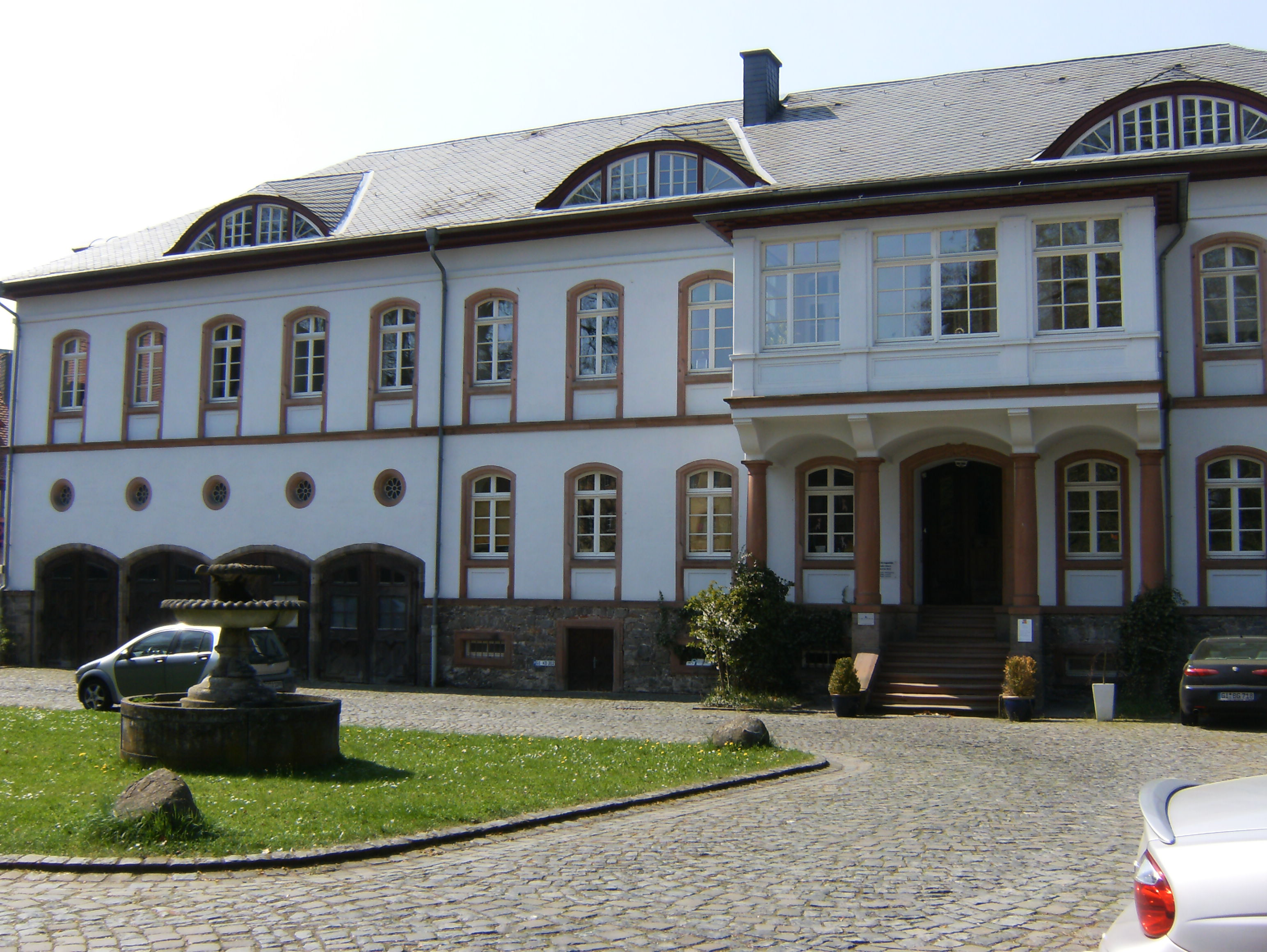 Lich, the "Rentamt".